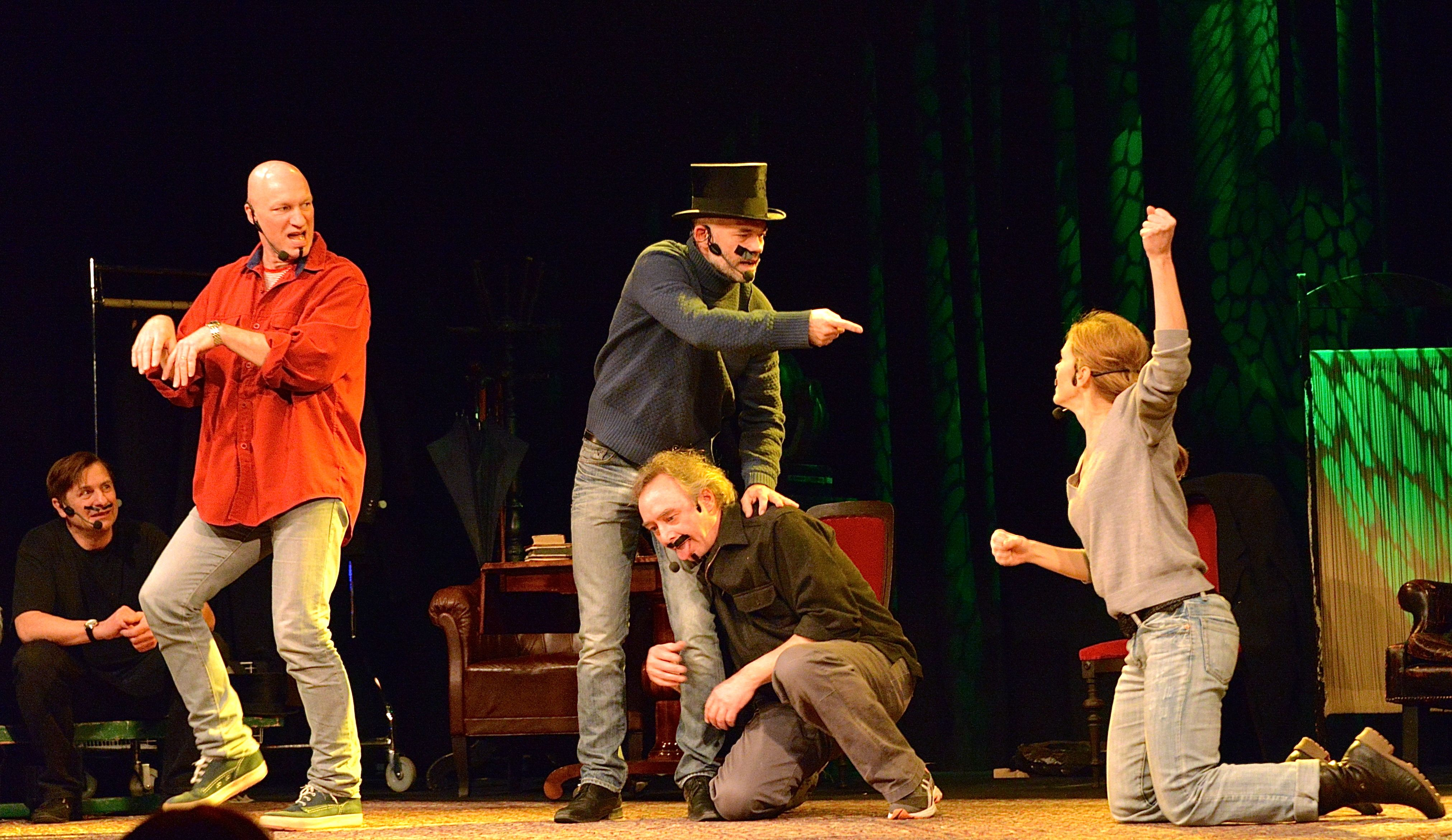 Theatre Sports in Strindberg year's final day, January 20, 2013 in Kulturhuset in Stockholm. Actors from Stockholm City Theatre.